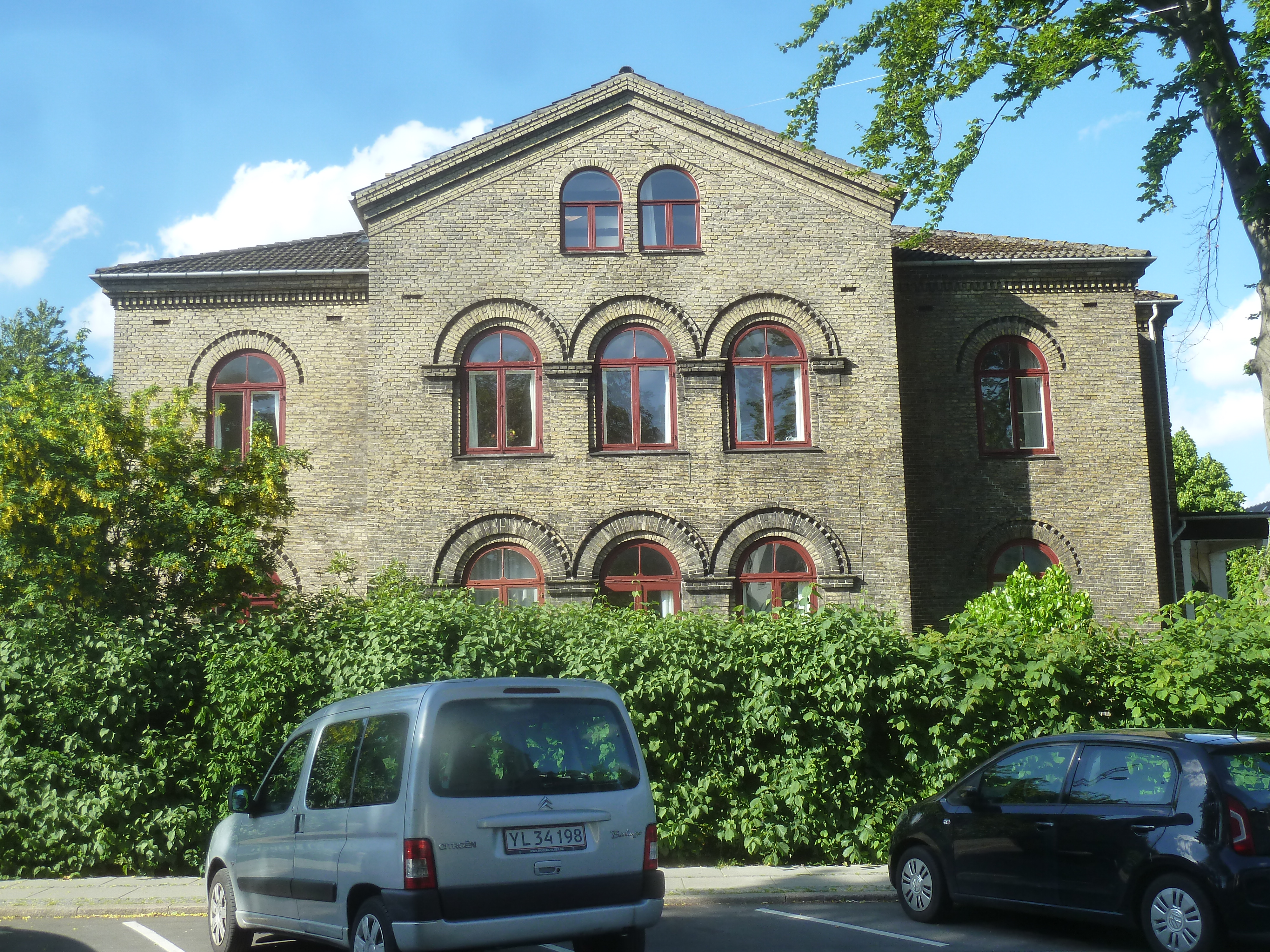 Amalievej 1, Frederiksberg, Copenhagen, Denmark